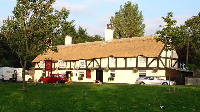 Ye Olde Hob Inn, Bamber Bridge. The Old Hob in sporting a newly thatched roof